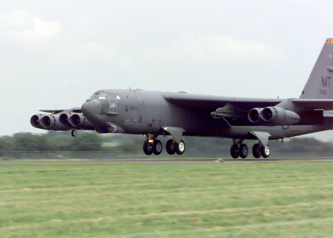 ROYAL AIR FORCE FAIRFORD, England - A B-52 Stratofortress, from the 5th Bomb Wing, Minot Air Force Base, N.D., takes-off homeward bound, afer supporting NATO Operation Allied Force.